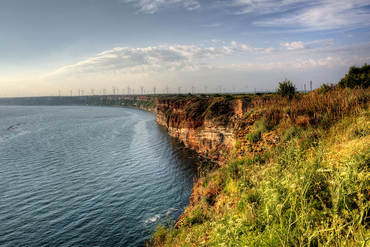 Sunset over Kaliakra